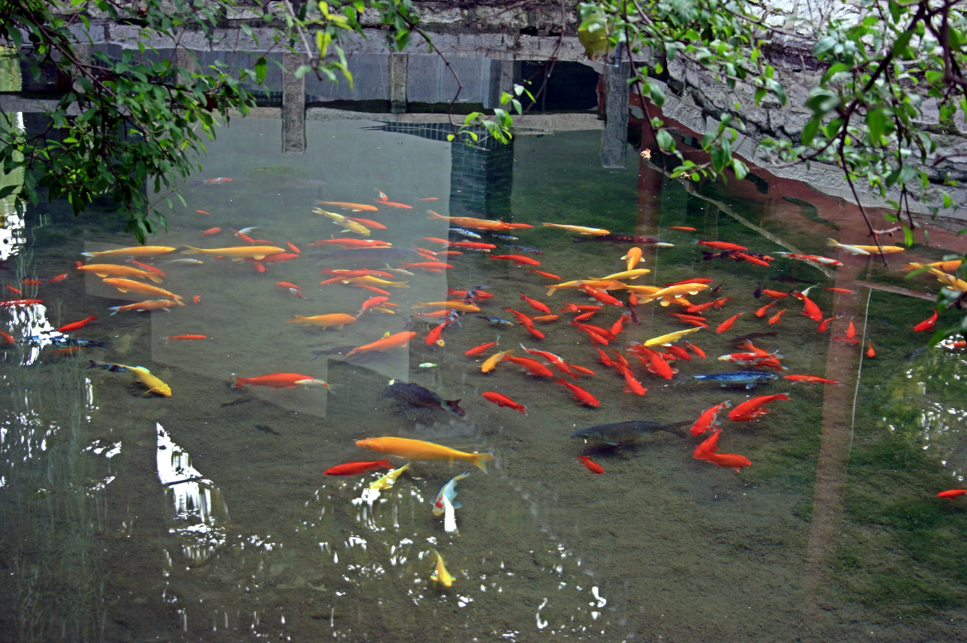 Photograph of goldfish in the Baotu Spring Park, Jinan, Shandong, China